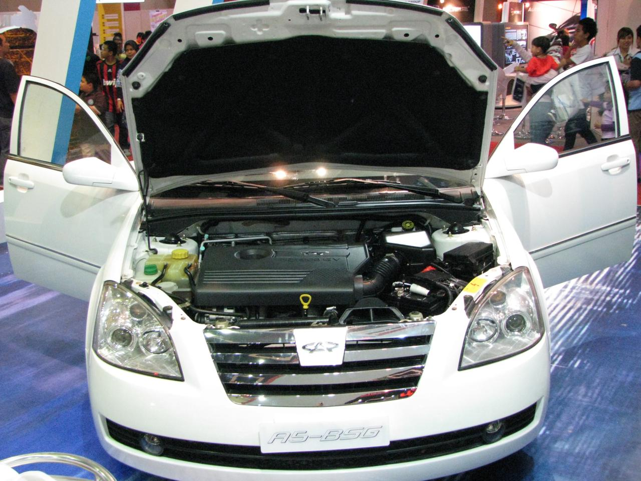 KL International Motor Show - 2010.12.07.